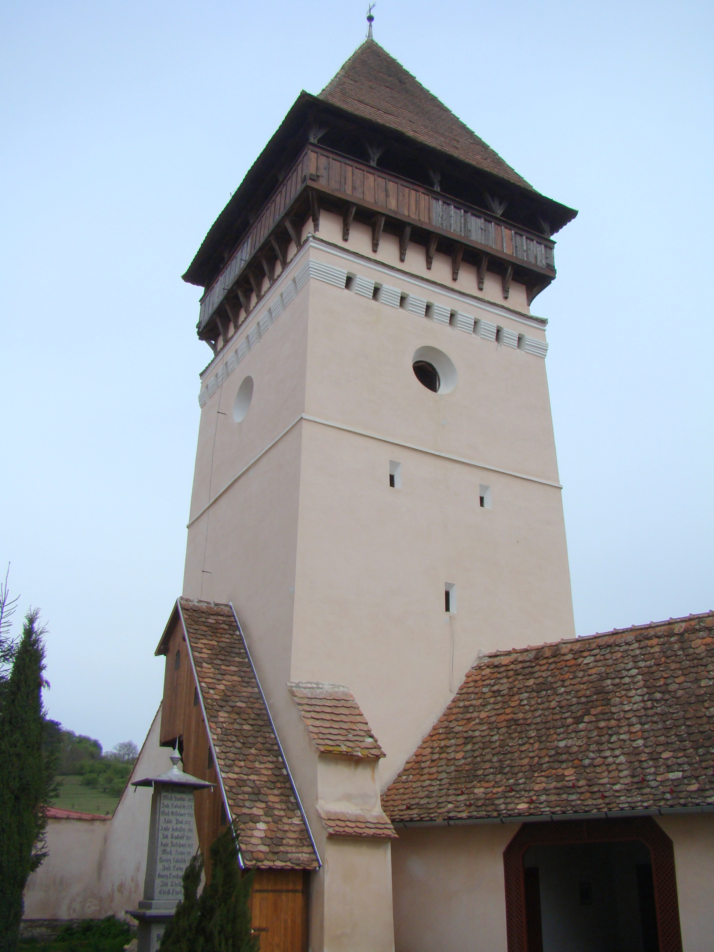 Lutheran church in Seleuș (Daneș), Mureș county, Romania